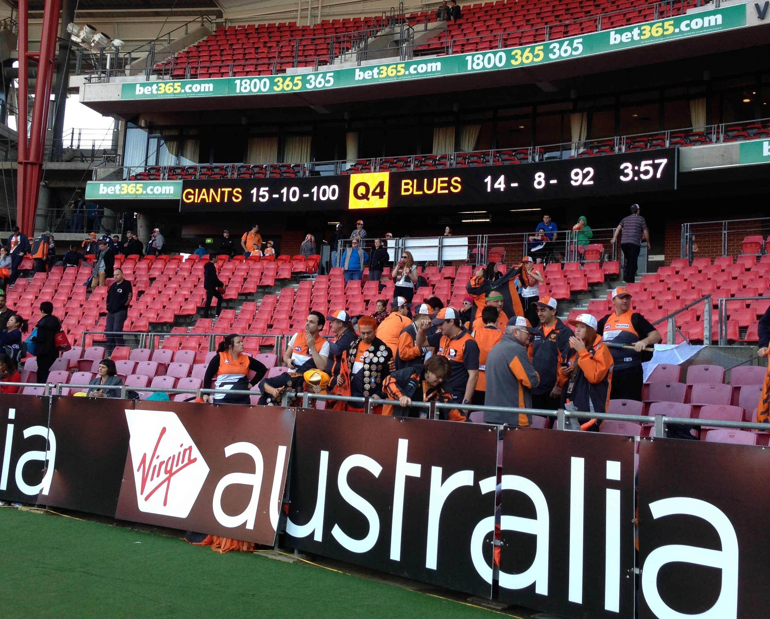 Final score of a match between the GWS Giants and Carlton Blues in 2014.